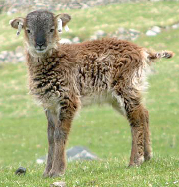 A Soay sheep lamb on the Scottish island of Hirta.